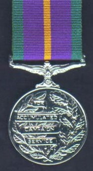 British Accumulated Campaign Service Medal